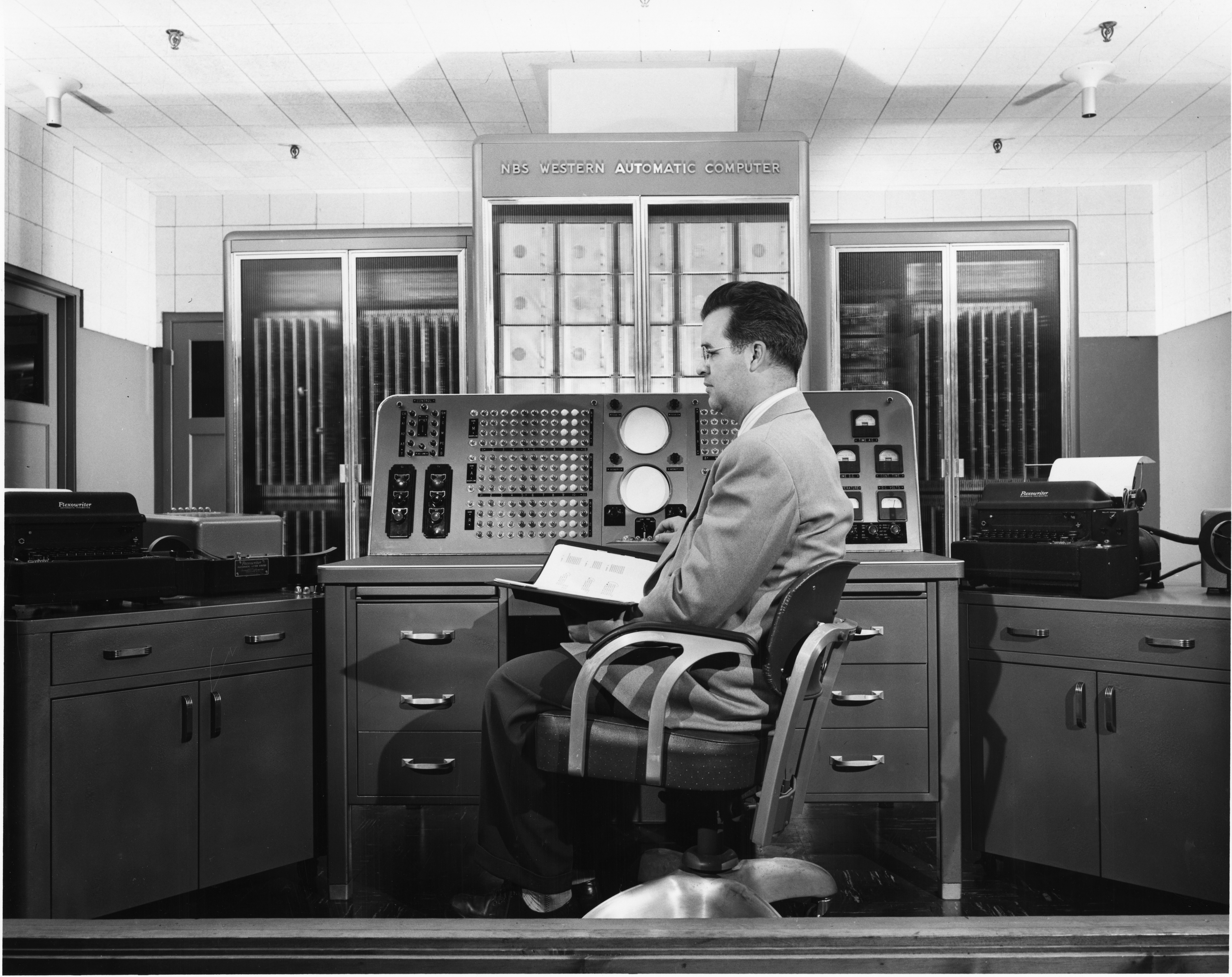 SWAC's high speed results from its rapid cathode-ray-tube type of memory (center background). Input mechanism is at left; output mechanism at right.